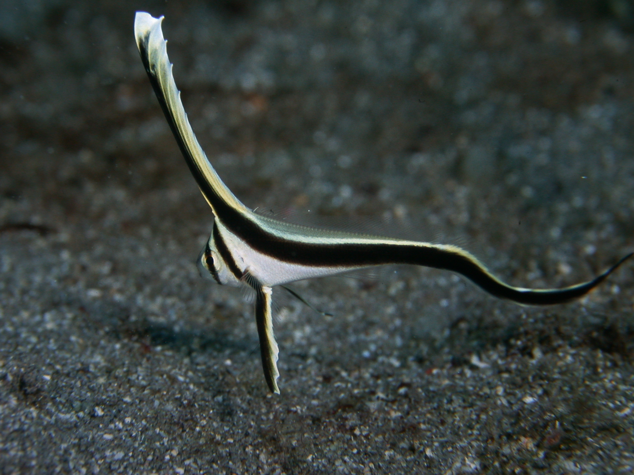 Juvenile Spotted Drum (Equetus lanceolatus)